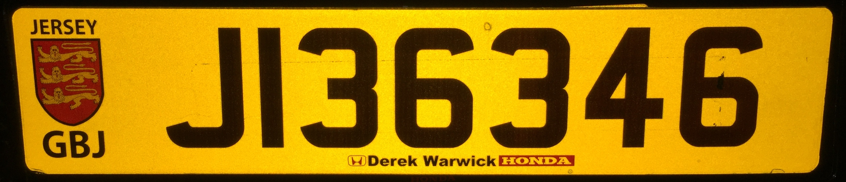 Rear number plate of Jersey Island